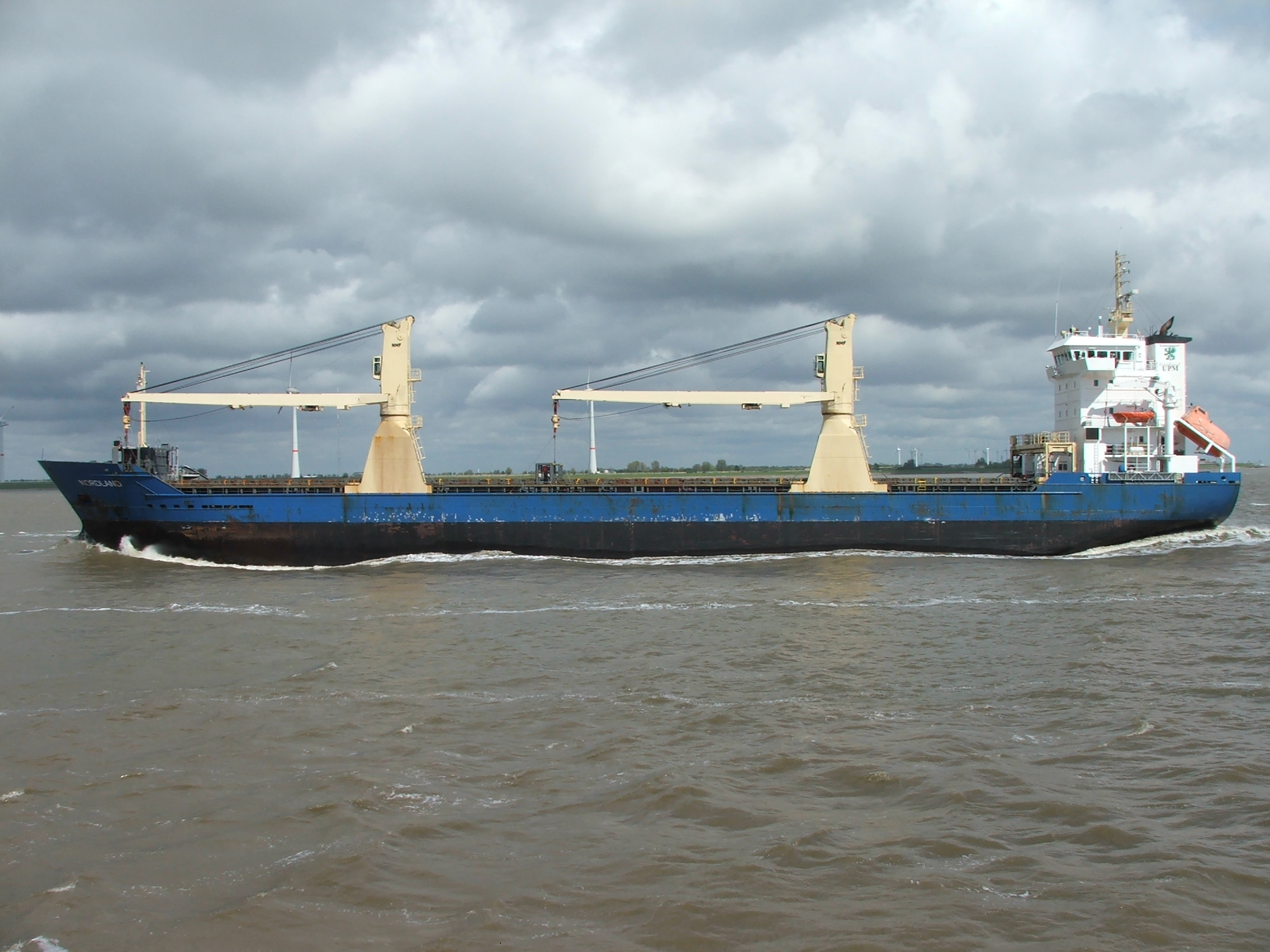 Dry cargo coaster "Nordland" Bodewes Trader 7000/8000 type